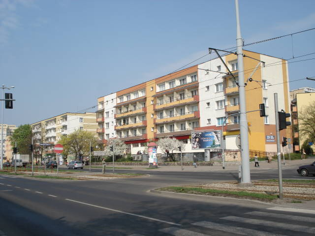 Kraszewskiego Street in Toruń